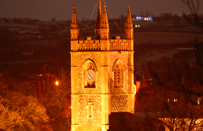 Church lightened by sourrounding spotlights